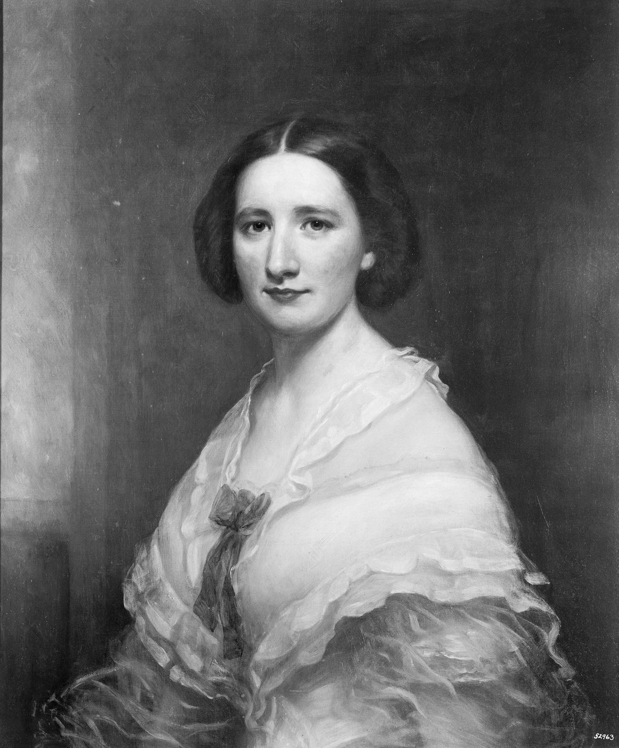 Title:Mrs. John Winthrop Chanler (Margaret Astor Ward). Author/Artist:Baker, George Augustus, 1821-1880 Creation Date:1841 Description:Graphic reproduction(s) with documentation of a painting. 30 x 25 in. oil on canvas. Provenance:(f) Rear Admiral Hubert Winthrop Chanler, "Sweet Briar Farm," Geneseo, New York (died 1974). Current Repository:unlocated.